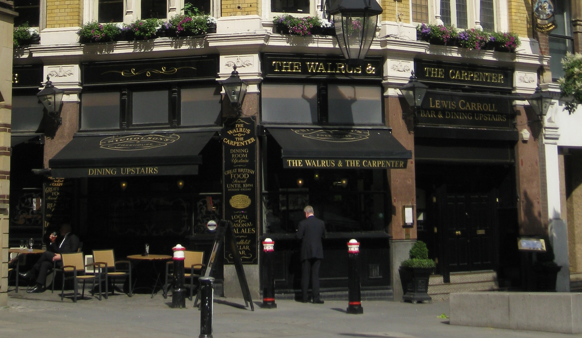 The Walrus & The Carpenter. Pub at 45 Monument Street, London EC3R 8BU. On the corner with Lovat Lane